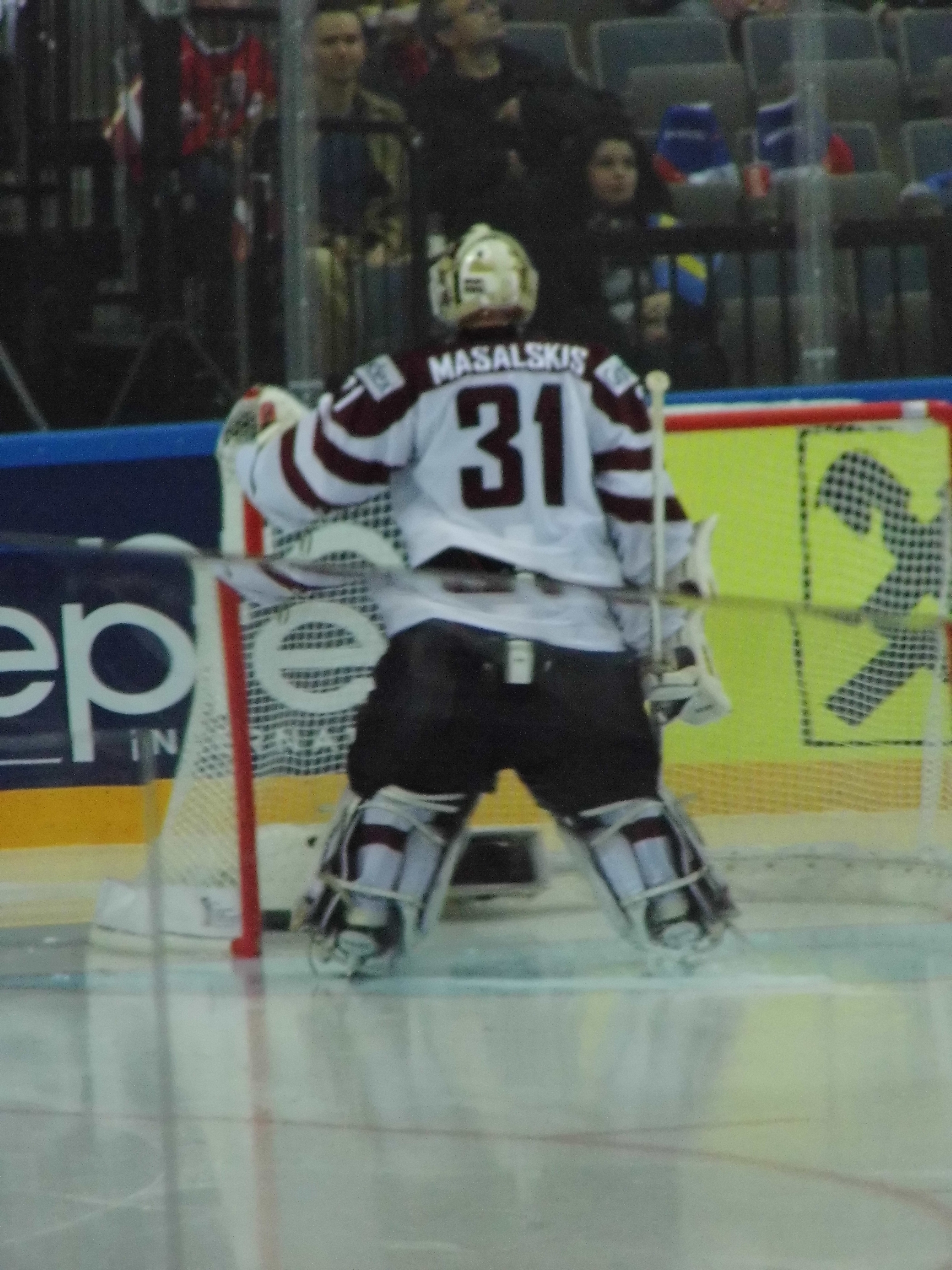 IIHF World Championship 2015. Latvia vs Sweden. Prague, Czech Republic